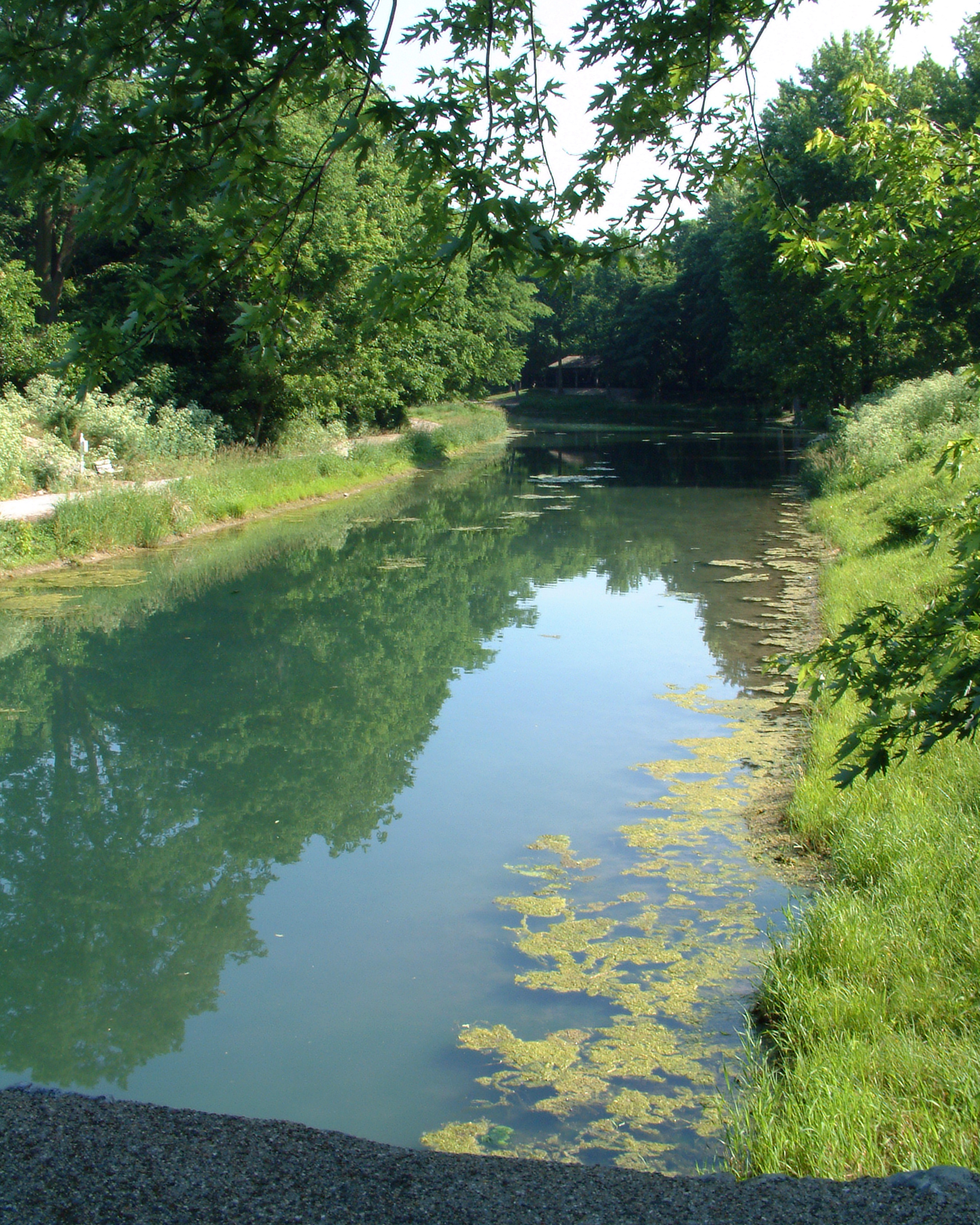 A restored section of the Wabash and Erie Canal in the town of Delphi in Carroll County, Indiana. Photo looks northeast from Washington Street.